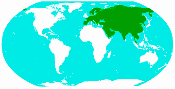 Locator map of the Eurasian continent (no islands)